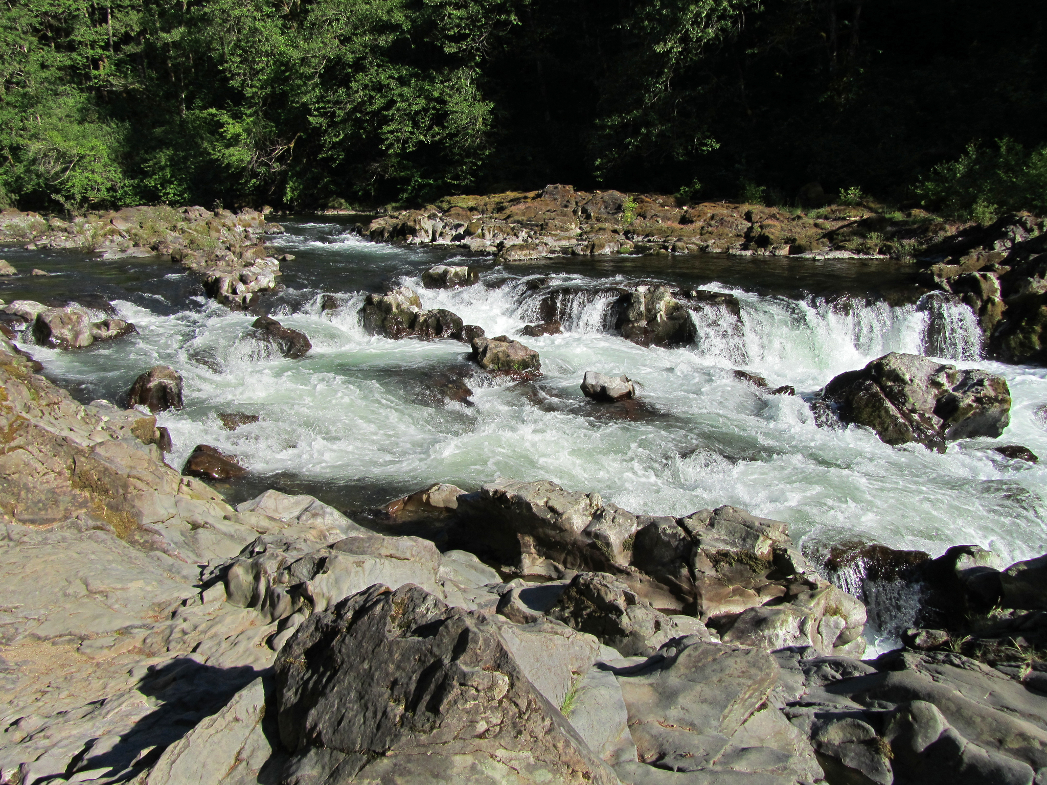 East Fork Lewis River at Moulton Falls Regional Park in Washington in The Pacific Northwest | Landscapes in The West by Jeff Hollett